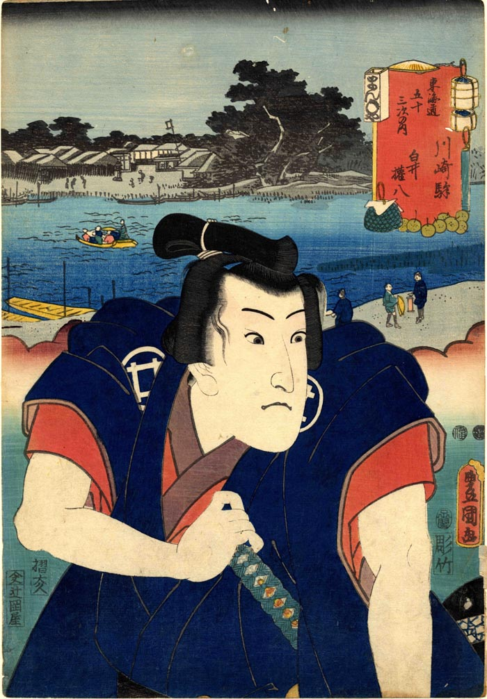 Part from the series Fifty-three Stations of the Tōkaidō (Tōkaidō gojūsan tsugi no uchi)